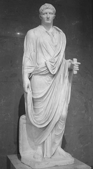 Portrait of Augustus created ca. 20–30 BC; the head does not belong to the statue, dated middle 2nd century AD.